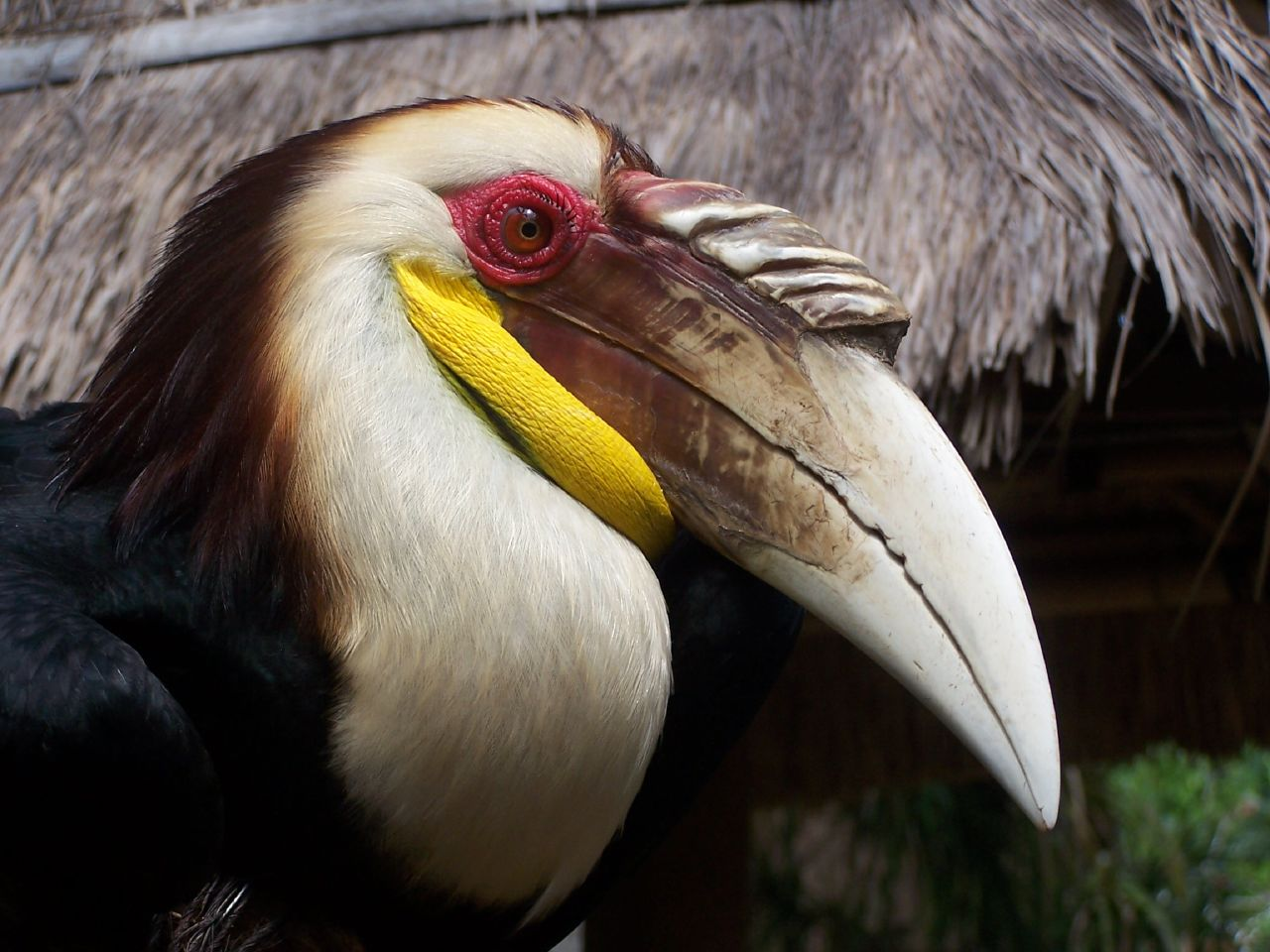 Wreathed Hornbill - Aceros undulatus (Male) at Bali Zoowhat is this bird name?